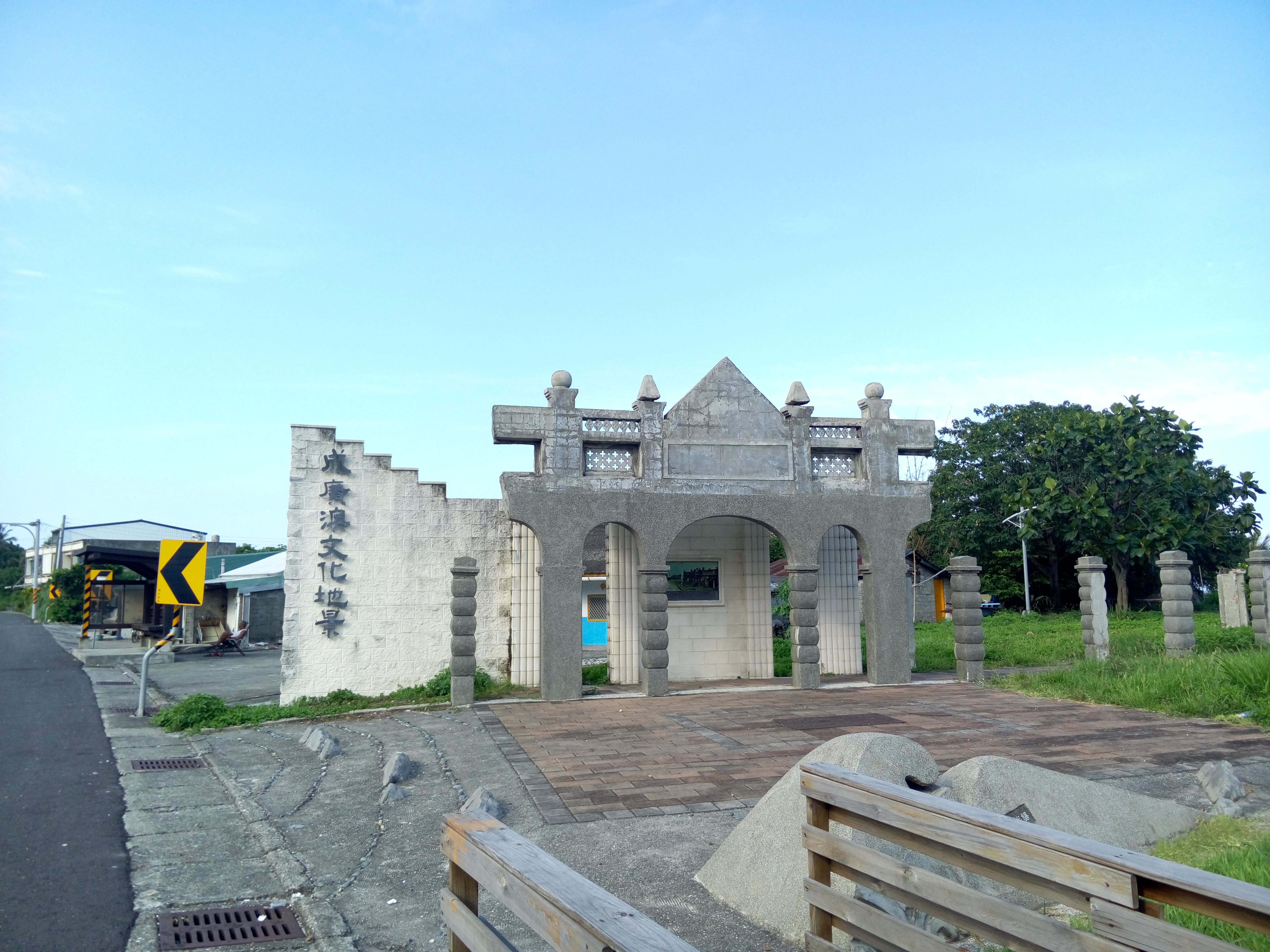 Taiwan Taitung County Xiao-Gun Port